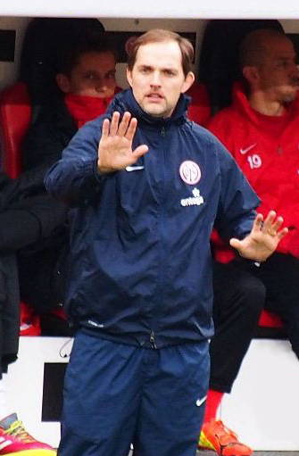 Mainz 05 coach Thomas Tuchel, away match in Leverkusen 2014